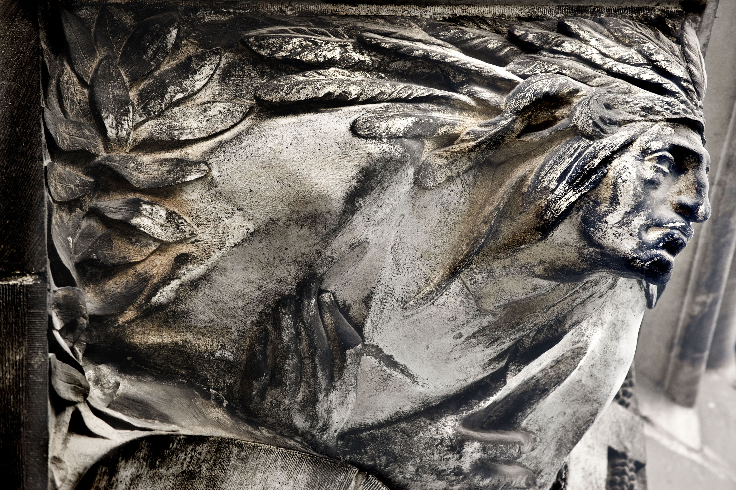 A stone carving of a Native American chief in the facade of the American College of Louvain (Belgium), reflecting the college's historic commitment to the American missions.